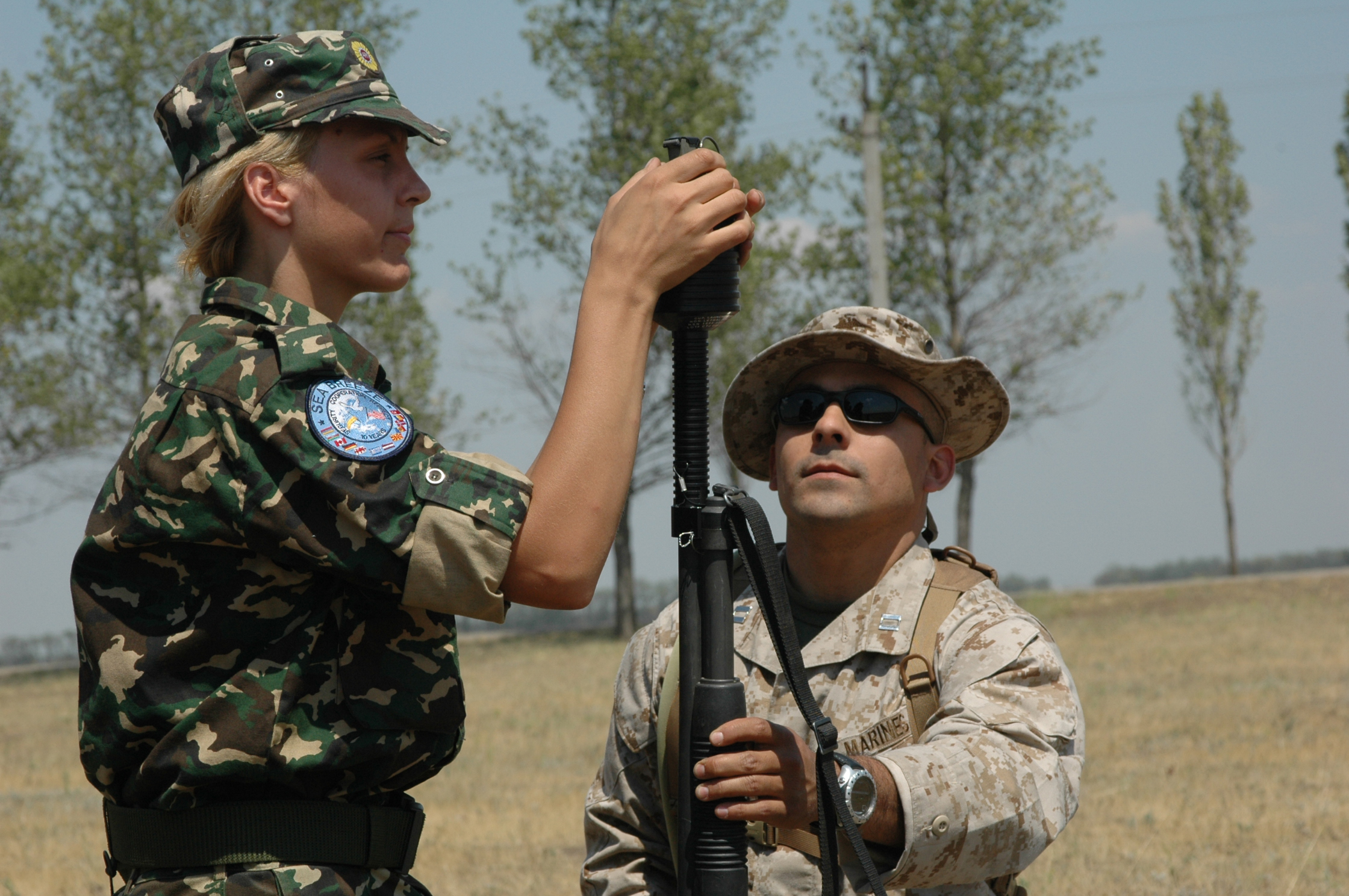 Macedonian Sgt. Slavka Gerasimoska loads non lethal sting ball grenade into the launching cap as Captain Roberto Rodriguez, non lethal weapons instructor, U.S. Marine Corps Forces, Europe, assists her during exercise Sea Breeze here July 12. Exercise Sea Breeze is in its tenth year and focuses on strengthening partnerships and fostering maritime safety and security capabilities to conduct peacekeeping operations in the Black Sea region. With 14 nations participating on land and at sea the U.S. forces here focused on ground training with service members from Moldova, Macedonia, Georgia, Armenia, Germany and the Ukraine, the host of the exercise.